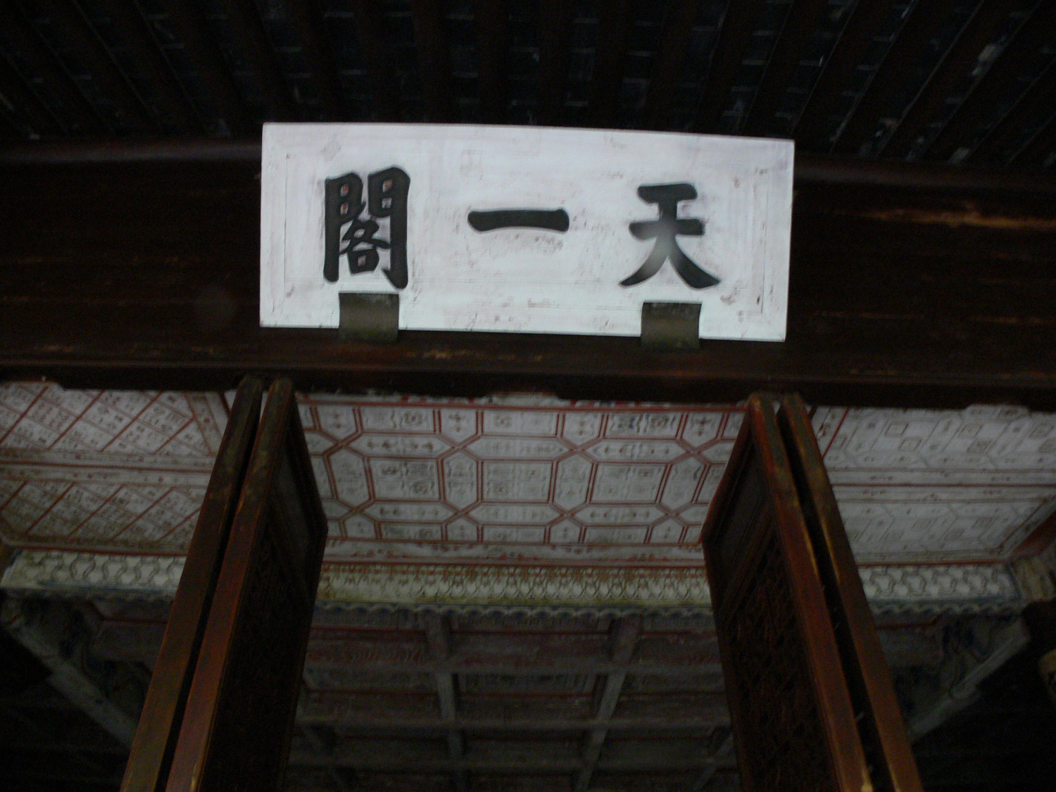 Tian Yi Chamber inscription board on main library building